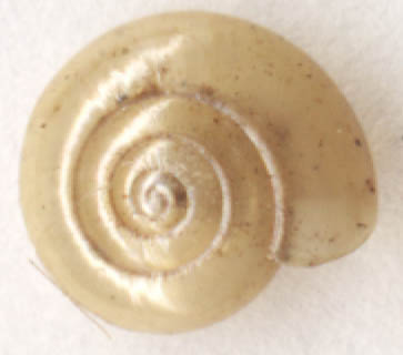 apical view of a shell of Oxychilus cellarius